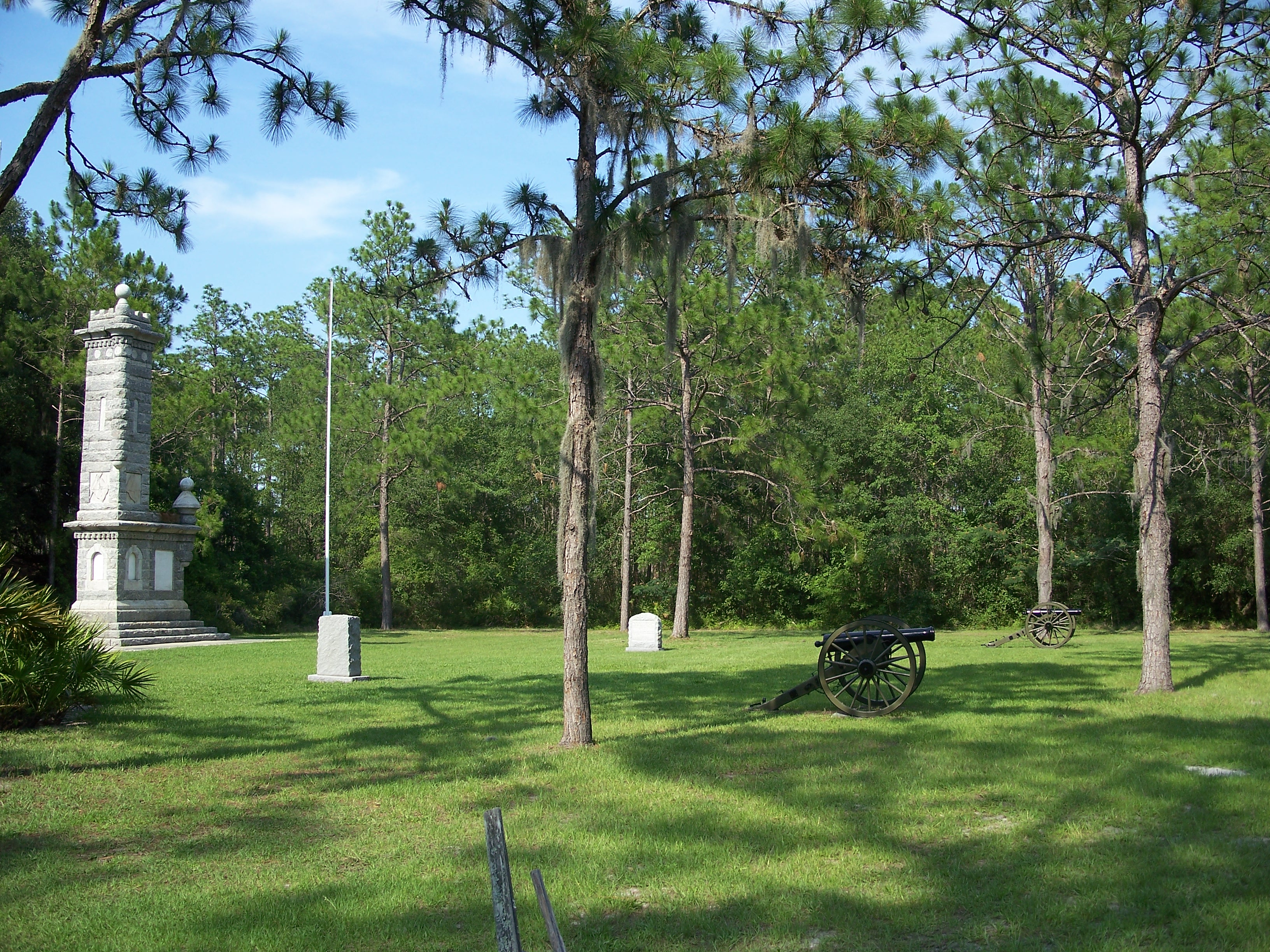 Olustee Battlefield Historic State Park, in Baker County, Florida